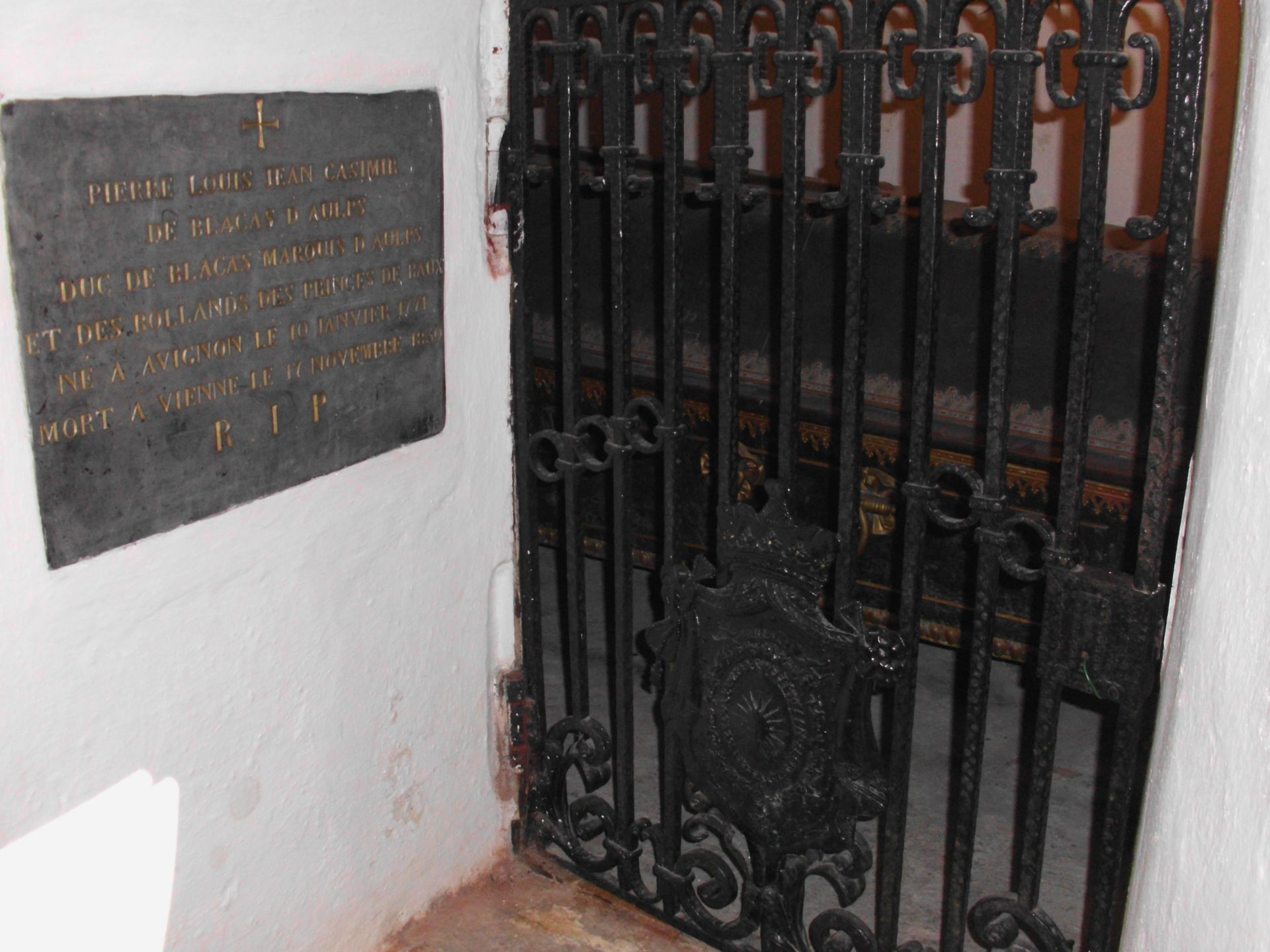 Bourbon tomb Kostanjevica - Tomb niche with the sarcophagus of the Duke de Blacas